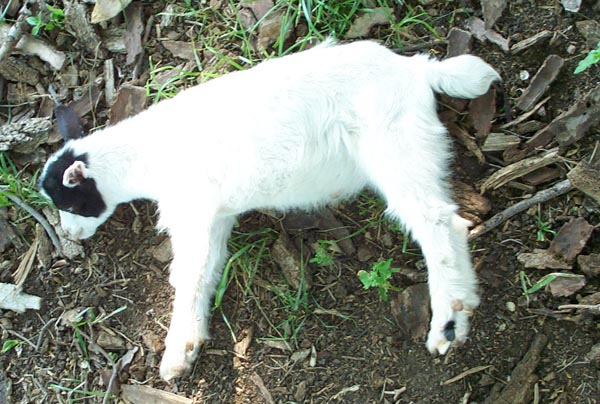 Fainting Goat experiencing Myotonia (fainting). Photo taken by Wikipedia user "Redleg" in 2006 of young Fainting Goat buckling "TTTFarm's Apollo"